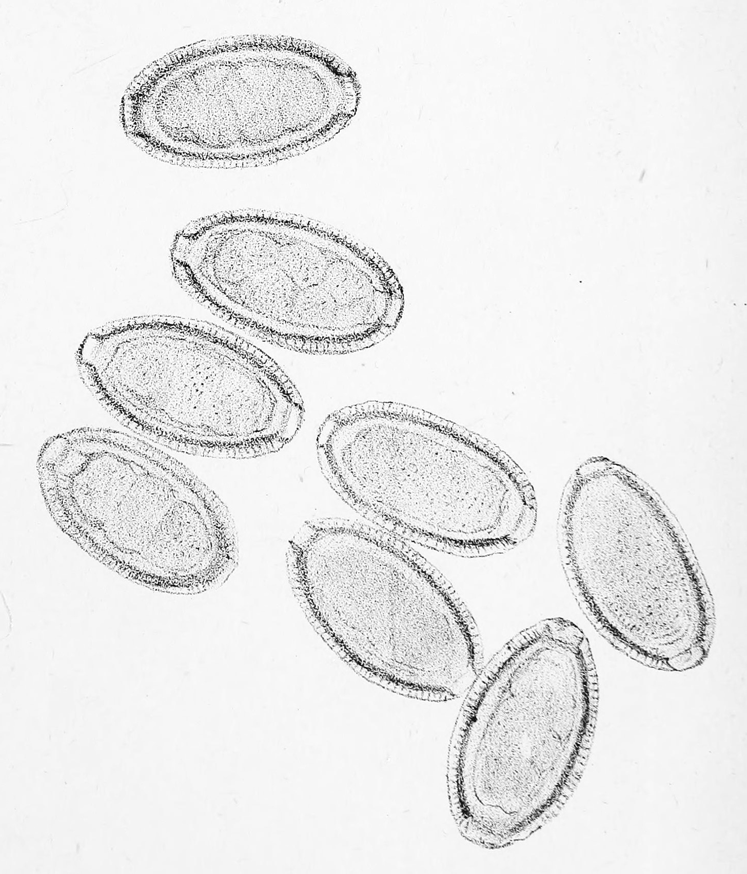 One of the two plates published in the original description of Trichocephalus hepaticus = Calodium hepaticum